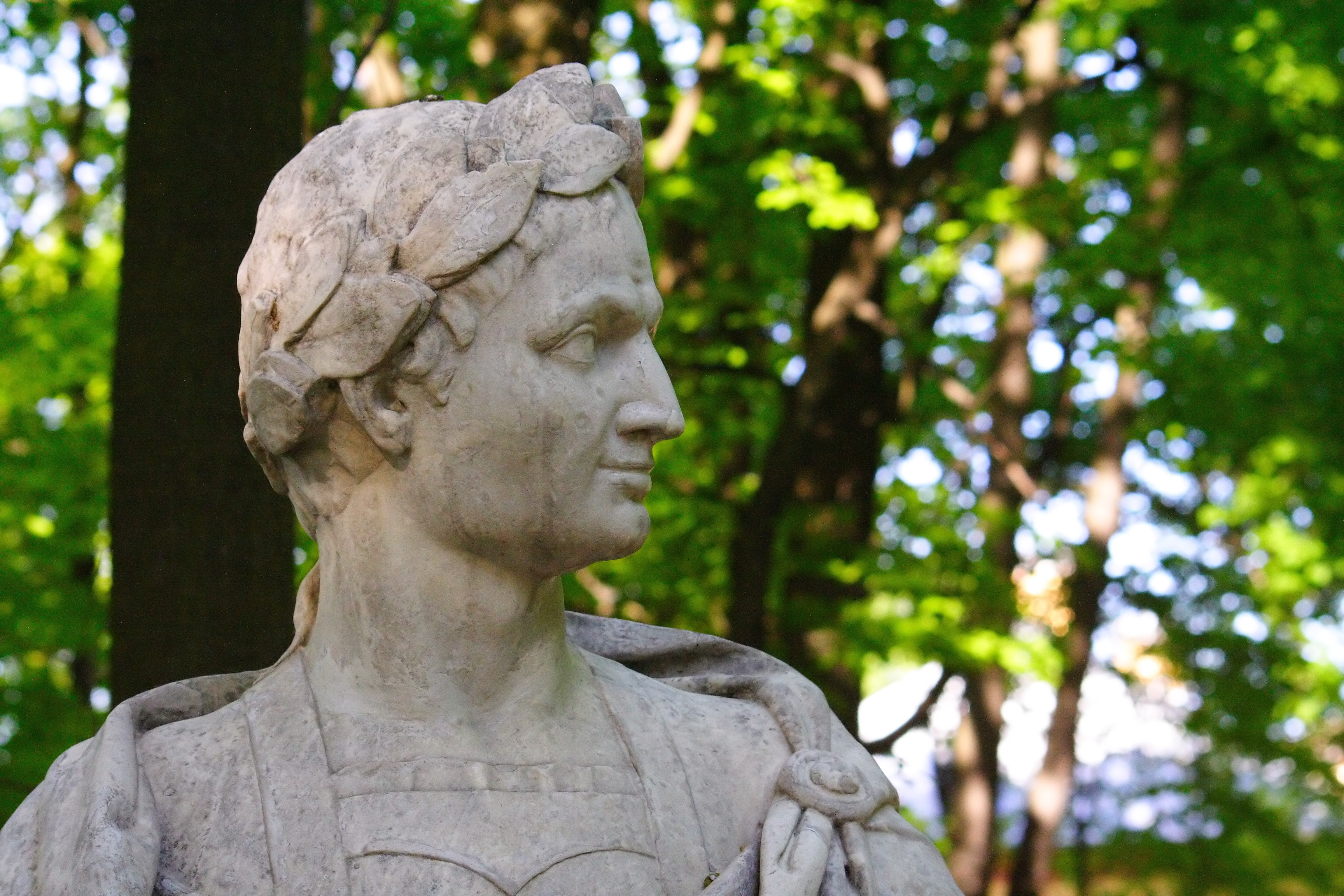 Julius Caesar, Summer garden, Saint-Petersburg